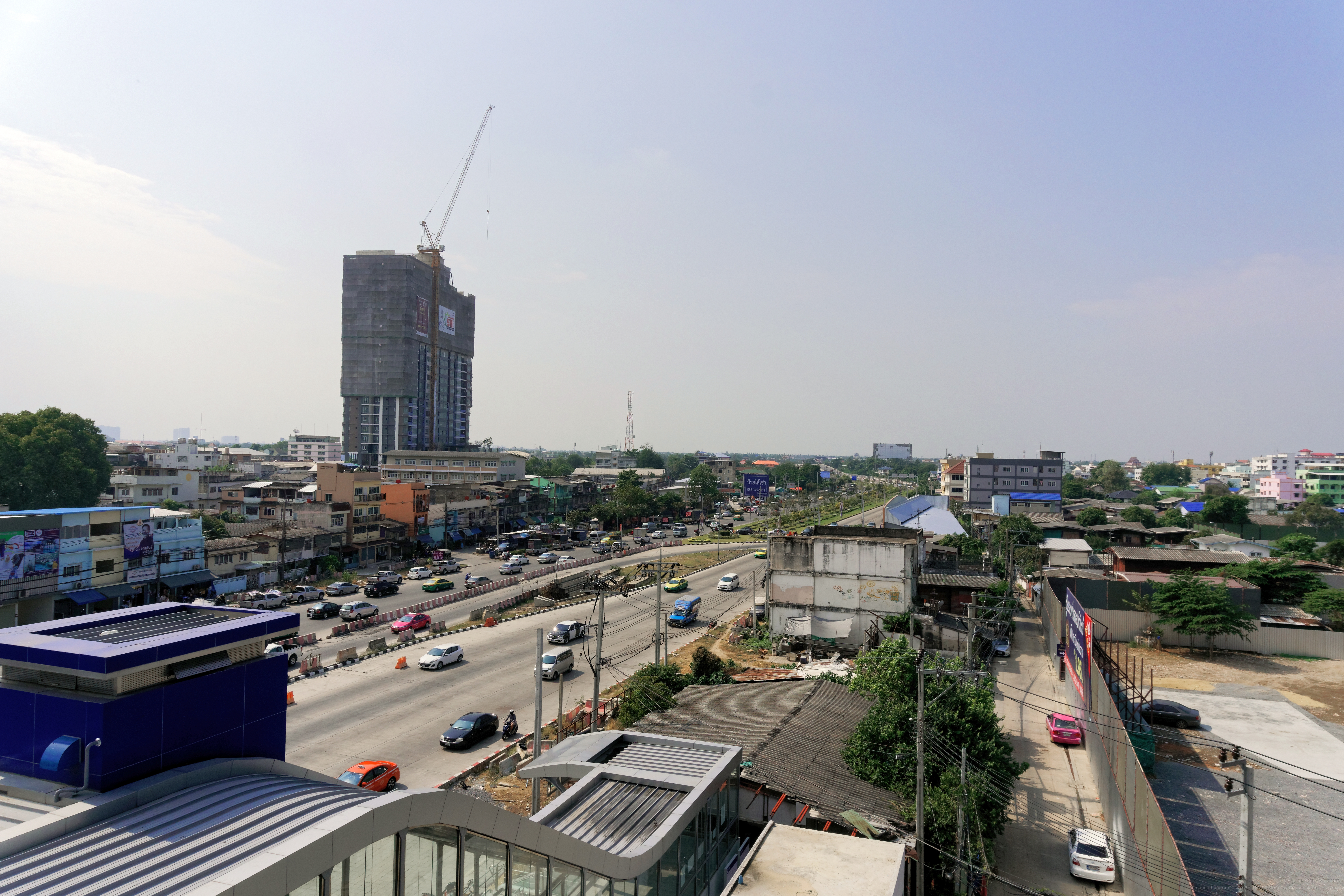 MRT Fai Chai – Puthamonthon Sai 4 street. Taken from a platform